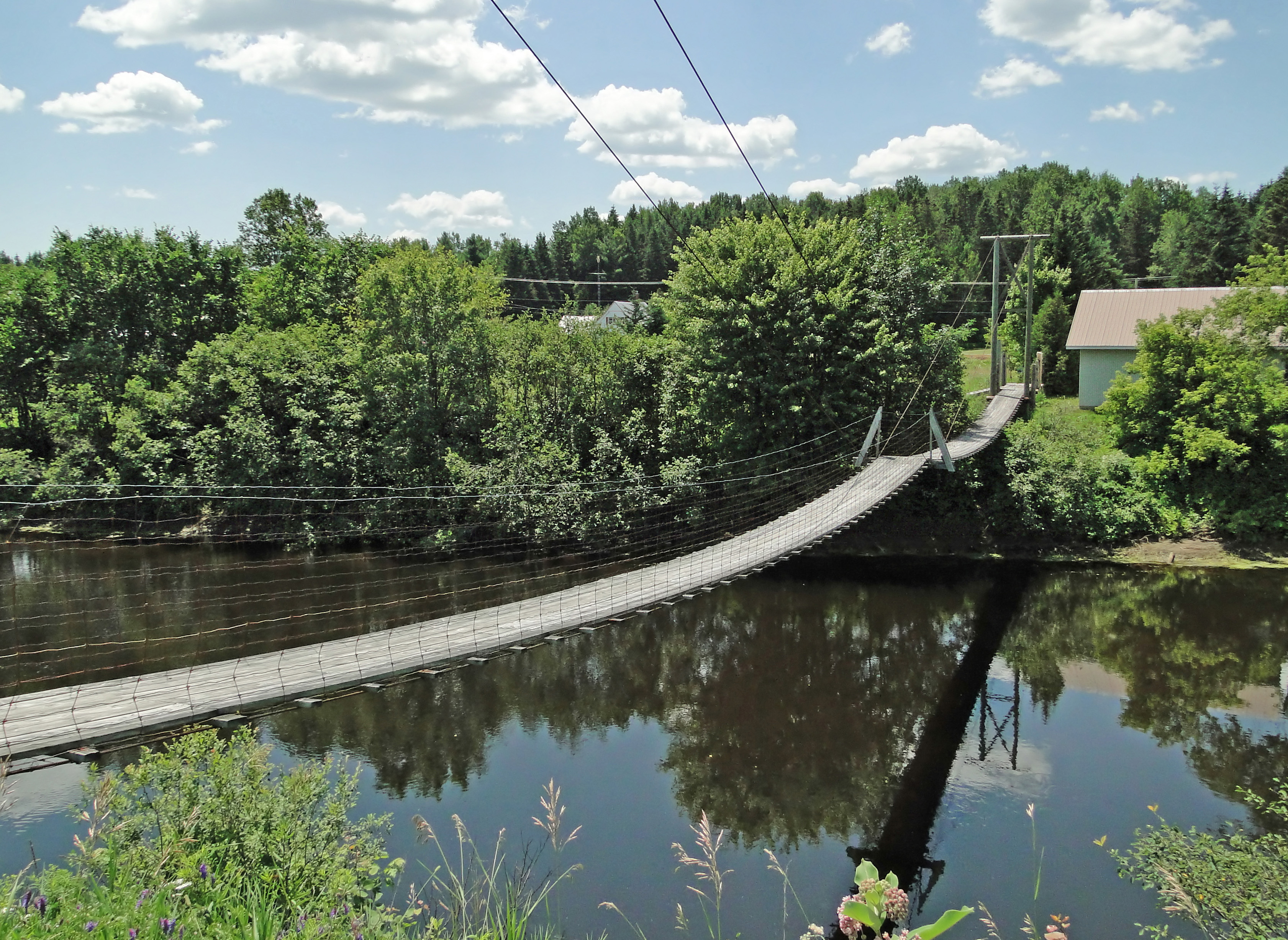 Suspension footbridge (1906) in Saint-Alexis-des-Monts, Quebec, Canada